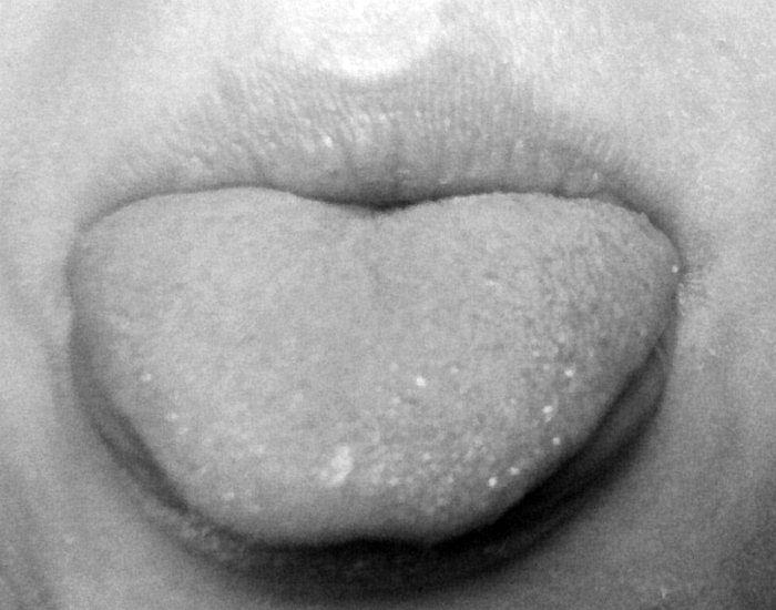 Picture of a tongue. Keele portree.